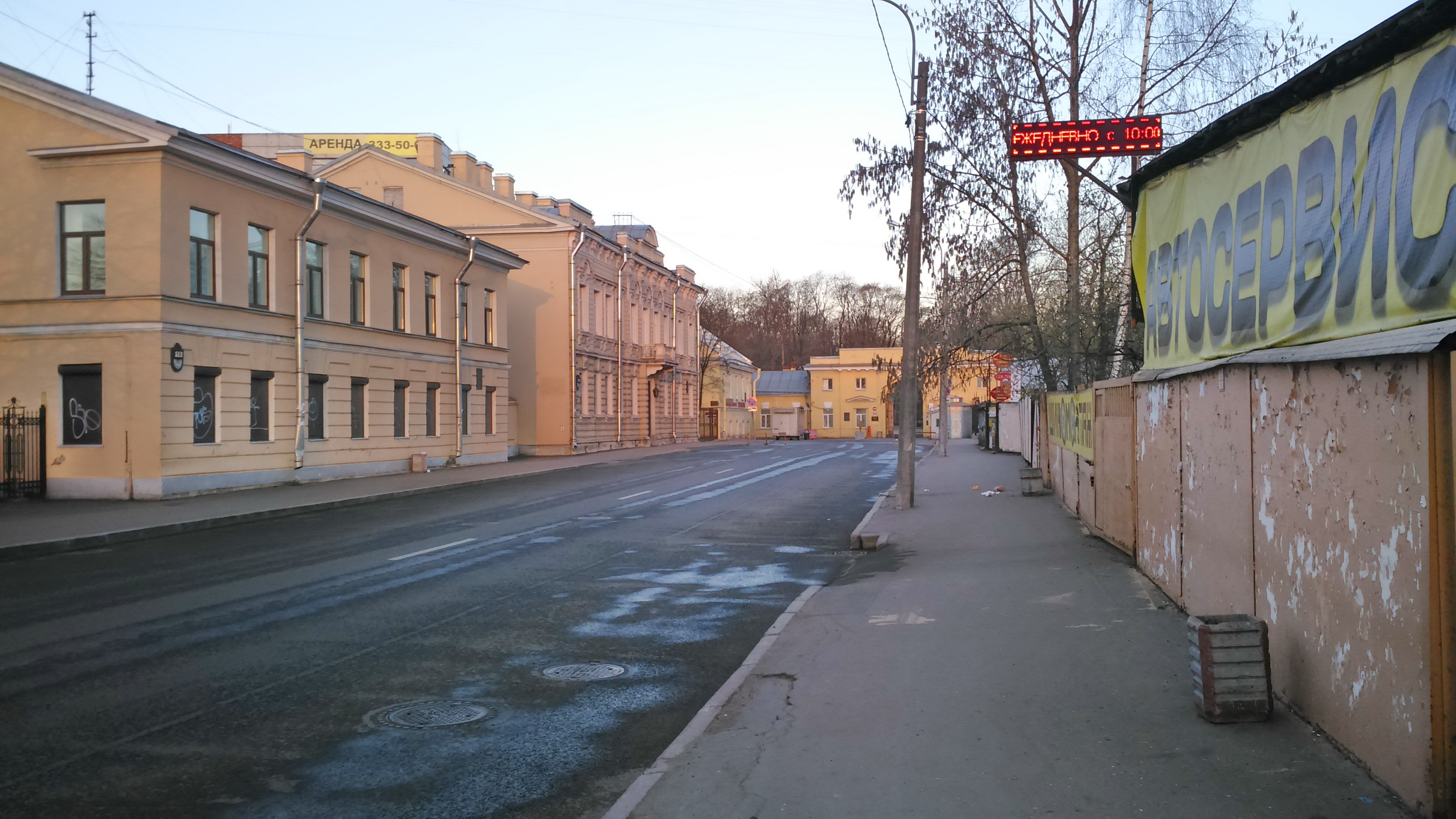 Kamskaya Street, houses 18-24, Vasilyevsky Island, St. Petersburg, Russia.